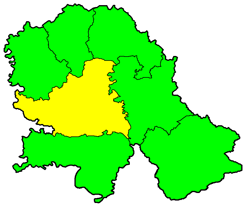 Map of South Backa